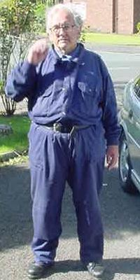 Boilersuit